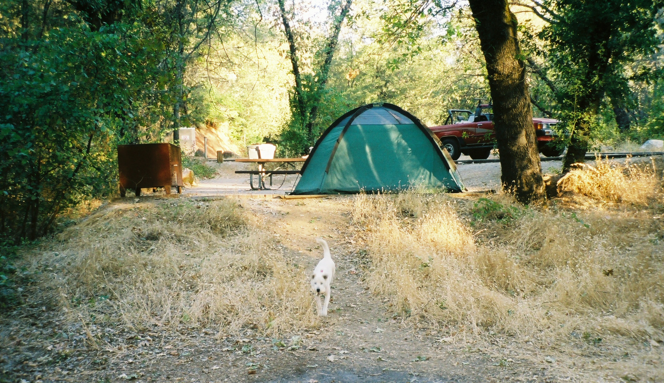 Bailey Cove Campground near Lake Shasta within the Shasta-Trinity National Forest, California.